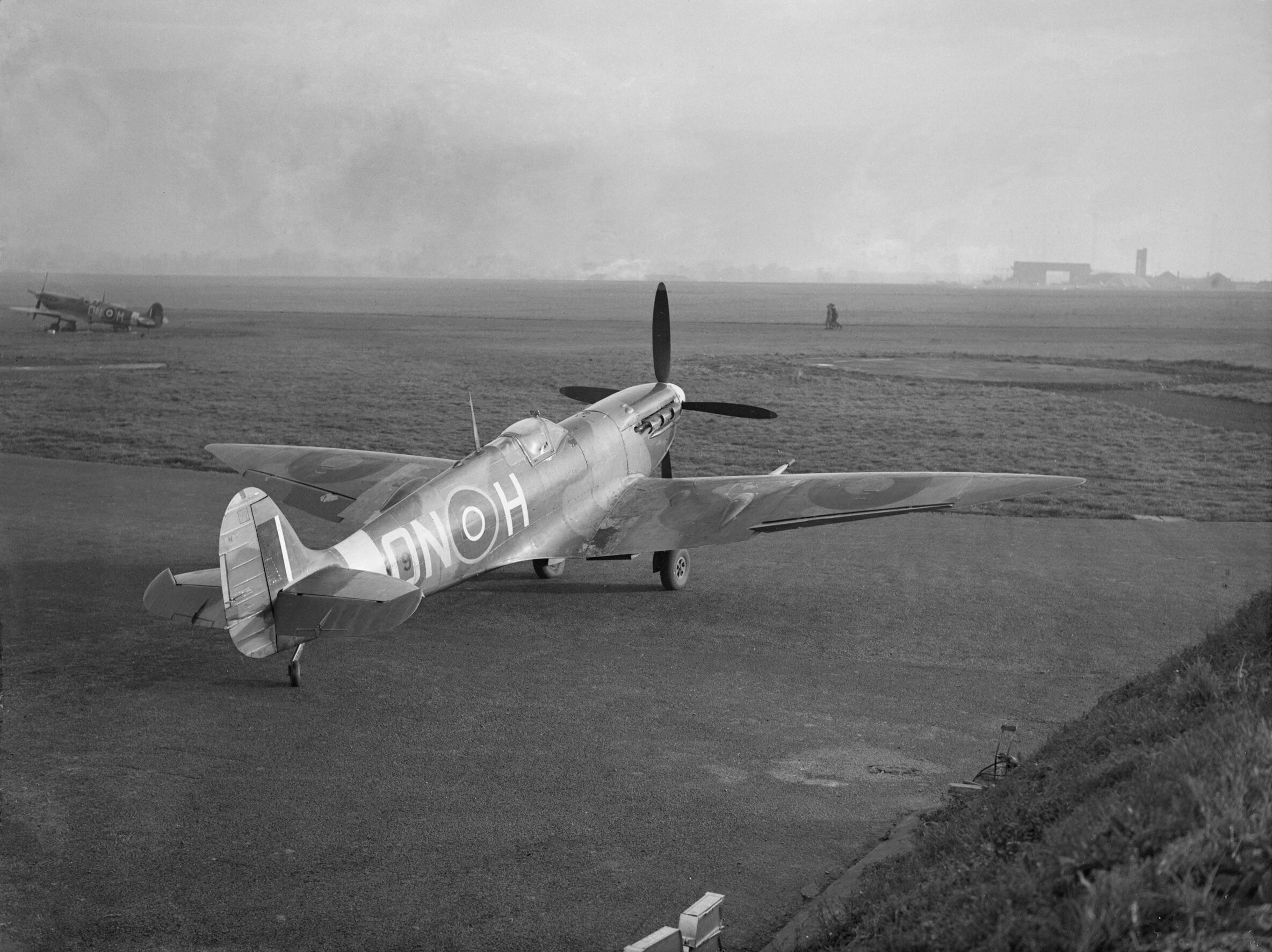 A Supermarine Spitfire Mark VI, BR579 'ON-H', of No. 124 Squadron RAF, parked in a dispersal at North Weald, Essex (UK).